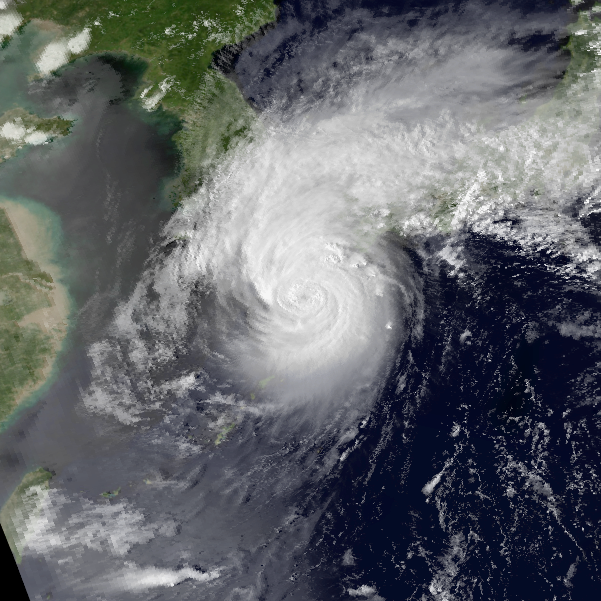 Typhoon Yancy of the 1993 Pacific typhoon season at its landfall on Kyushu Island on September 3, 1993 at 0650 UTC.